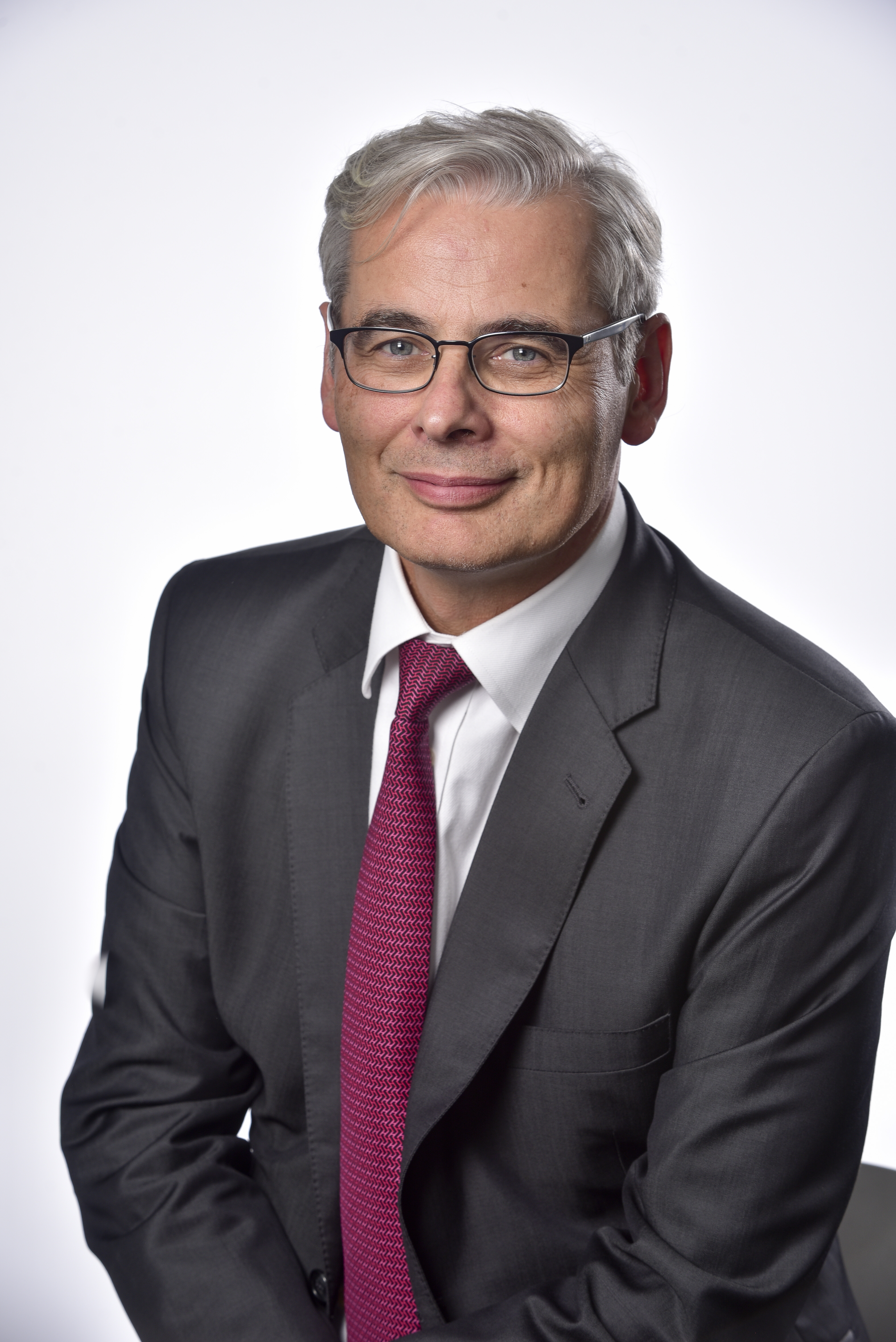 Depicted person: Jean-Marc Germain – CEO of the global aluminium manufacturer Constellium